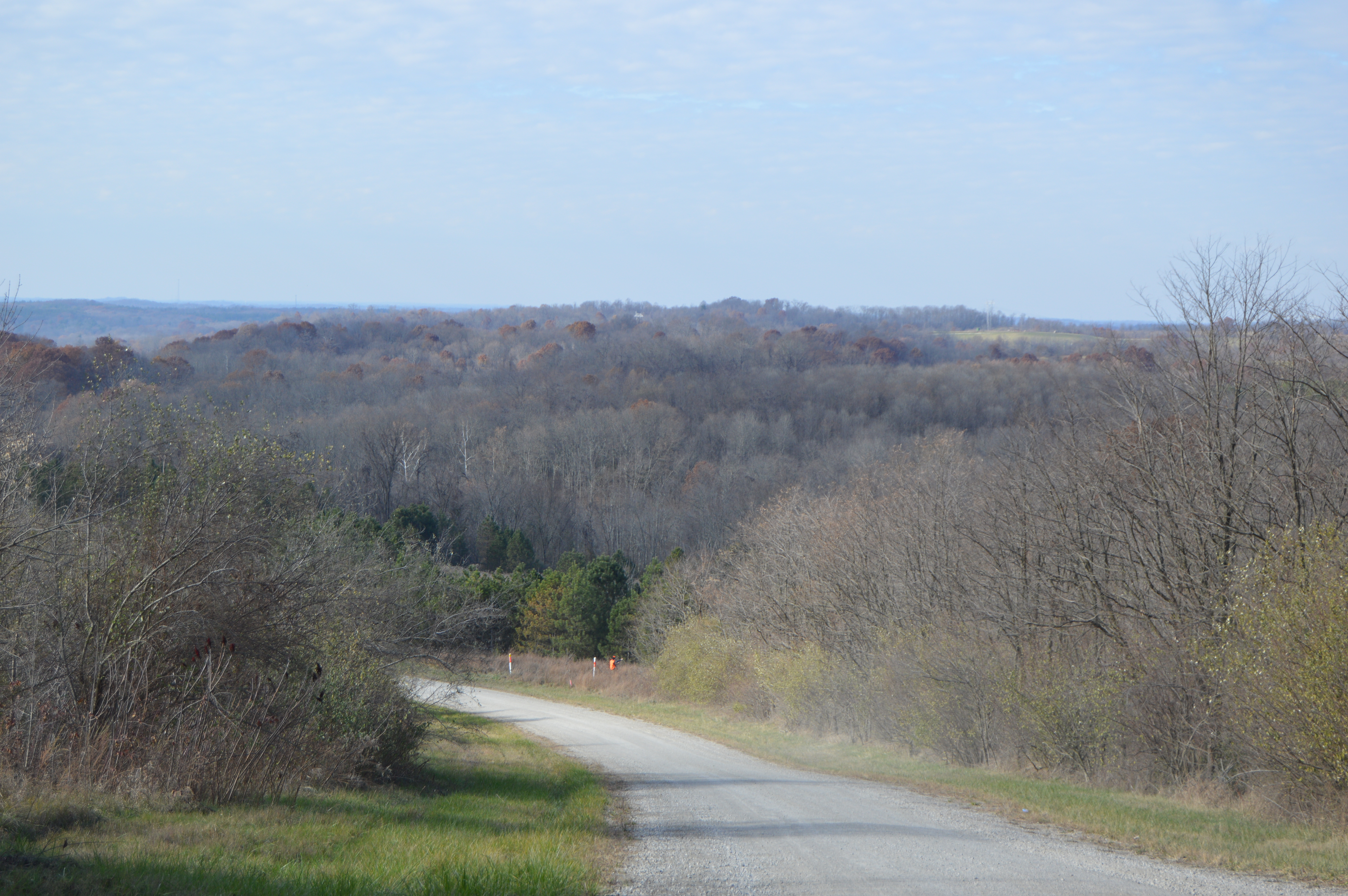 Looking west from a hilltop on Sugargrove Road west of High Hill in Meigs Township, Muskingum County, Ohio, United States.